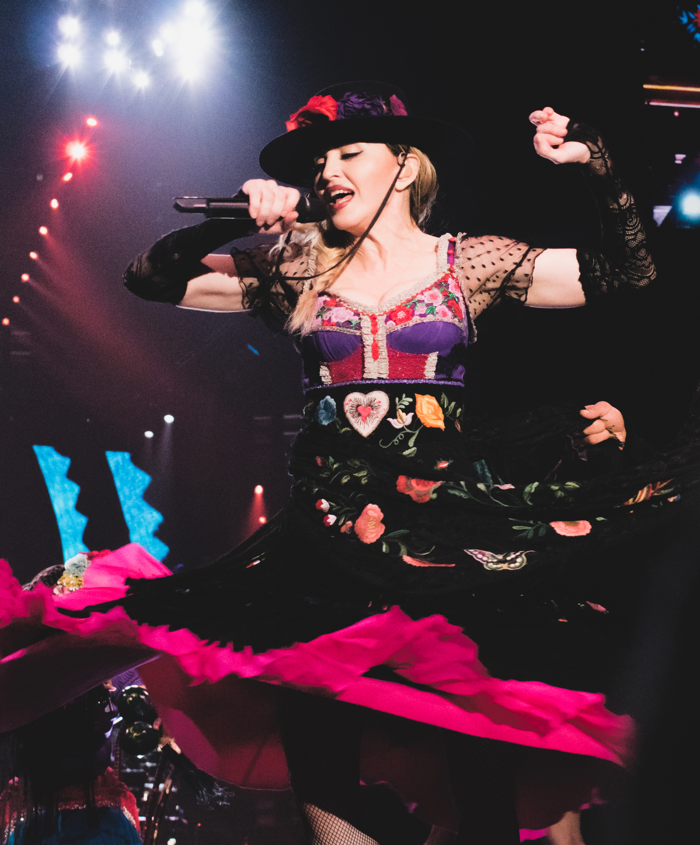 Wells Fargo Center / Philadelphia, PA